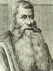 Johann Bogerman as chairman of the Synod of Dort at 43 years of age.